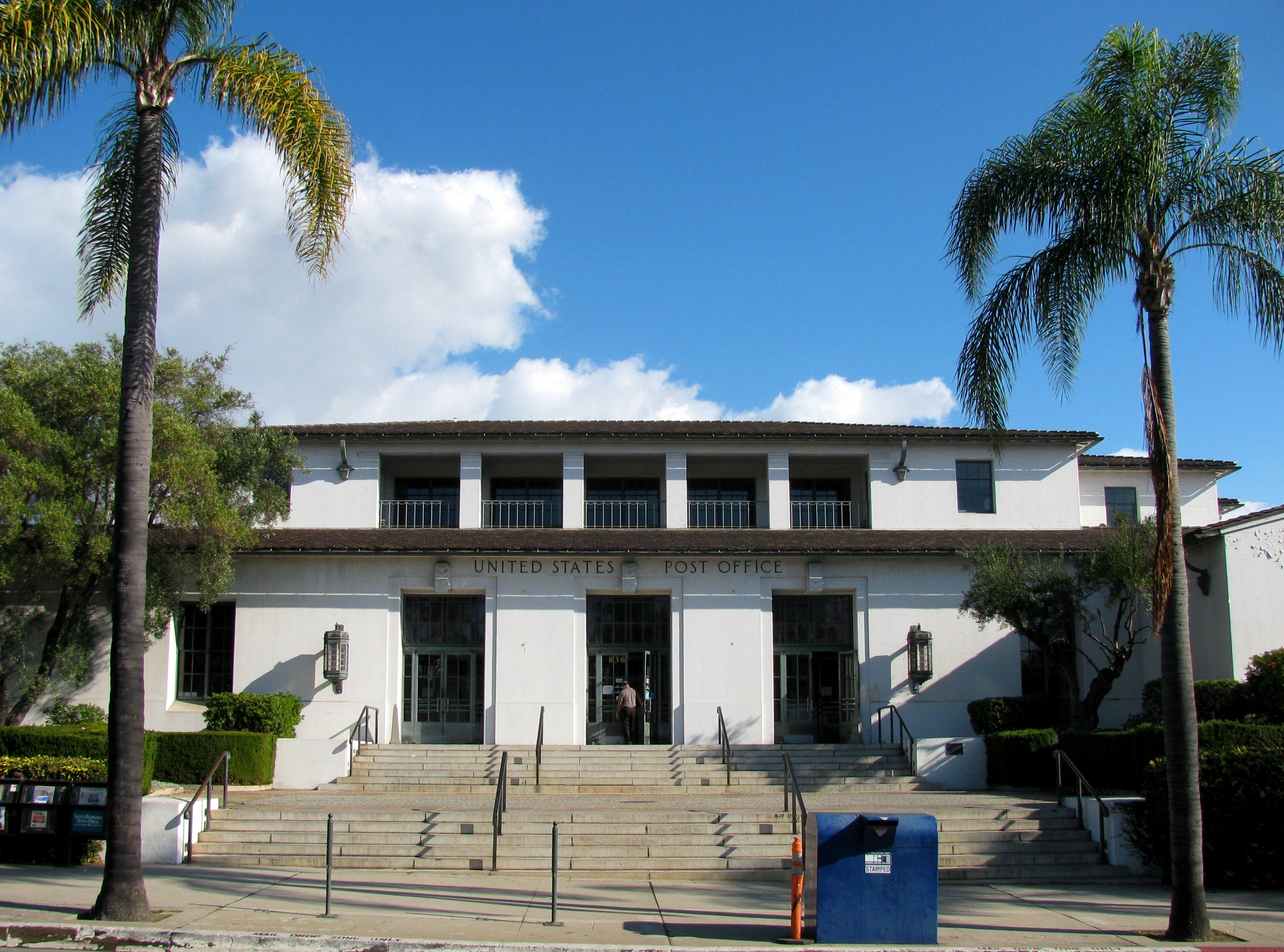 Santa Barbara Post Office (Reginald Johnson, 1937), photo by self, GFDL/equiv, Nov 19, 2011